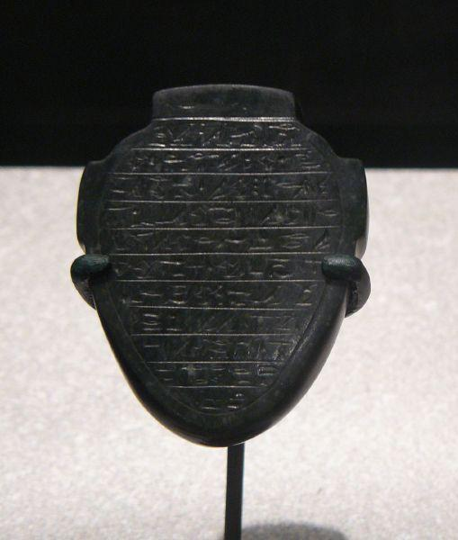 Heart Scarab of the Divine Father Hori, ca. 1539-1075 B.C.E. Green stone. Brooklyn Museum, Charles Edwin Wilbour Fund, 37.479E.